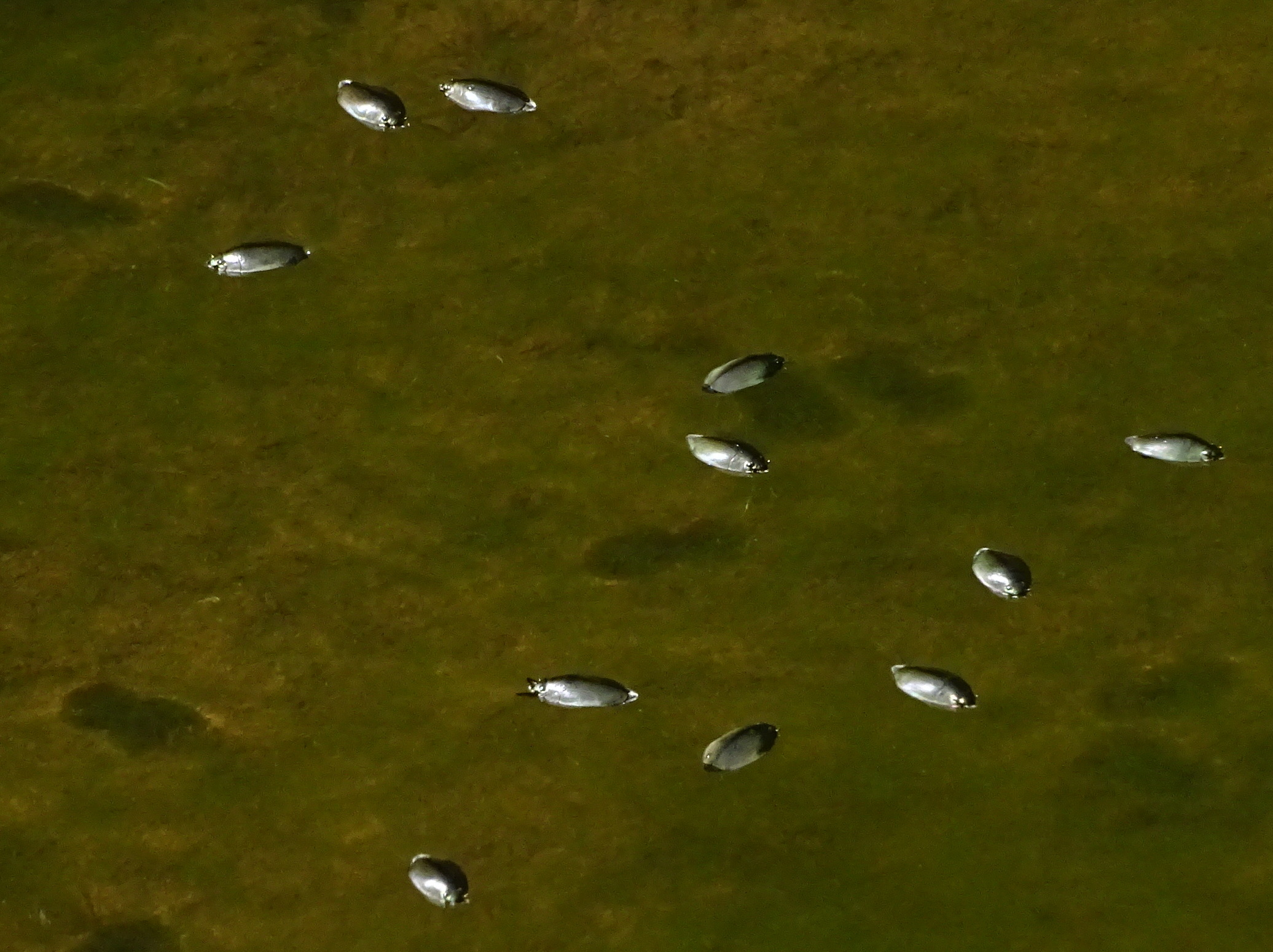 Whirligig Beetle of Gyrinidae family seen in Gupt Bhimashankar in Sahyadri forest area near Pune India